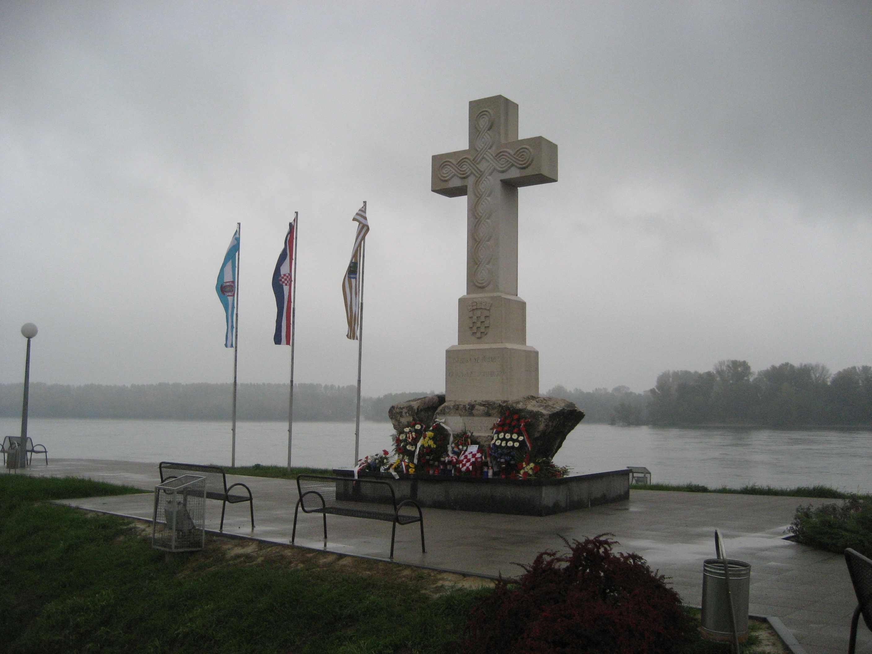 Memorial_for_the_defenders_of_Vukovar,_Croatia